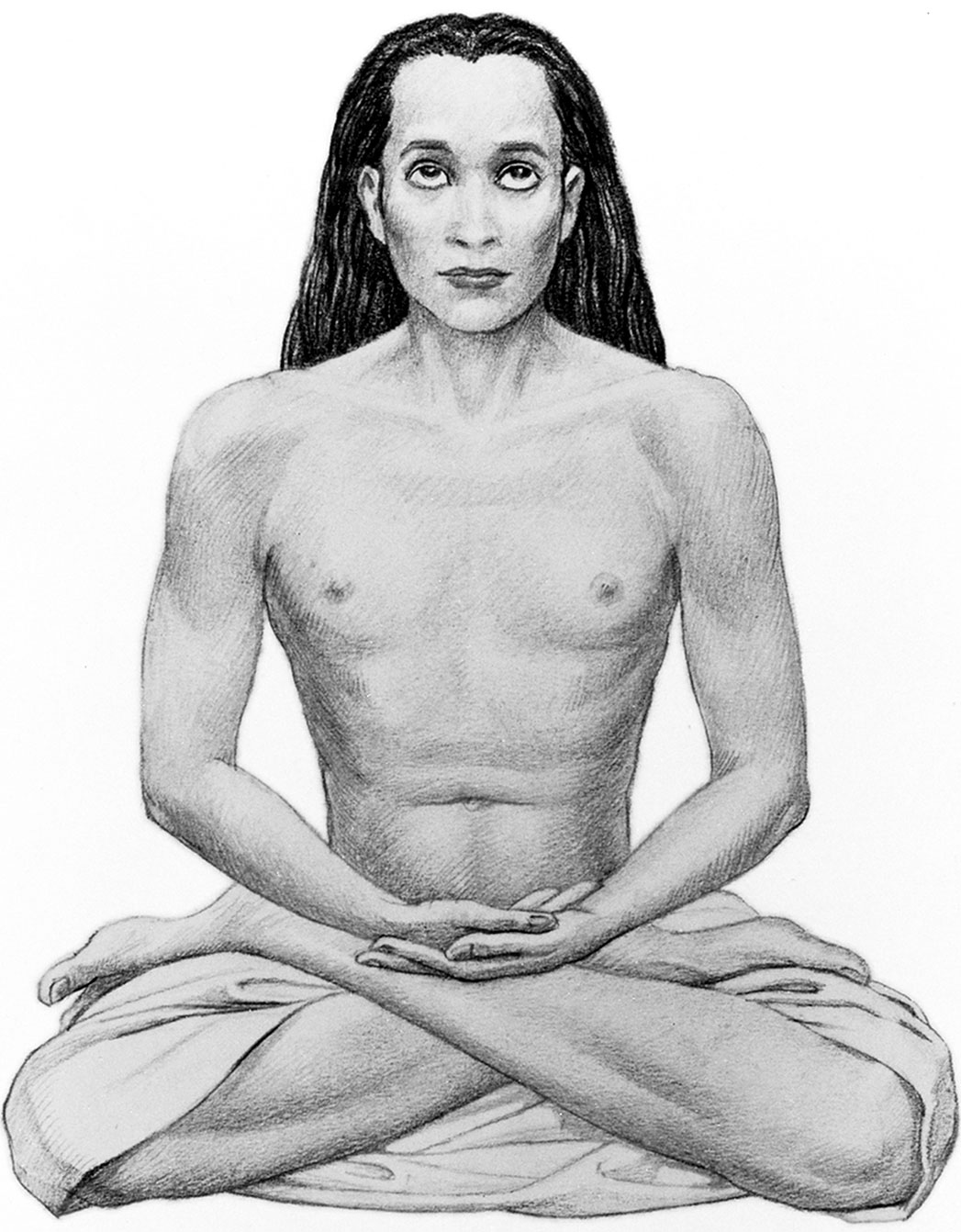 Mahavatar Babaji. The drawing was ordered by Paramahamsa Yogananda, and was executed by his brother, Sananda Lal Ghosh[1], according Yogananda's hints. Image is taken from the public domain version of Autobiography of a Yogi, by Paramahamsa Yogananda.